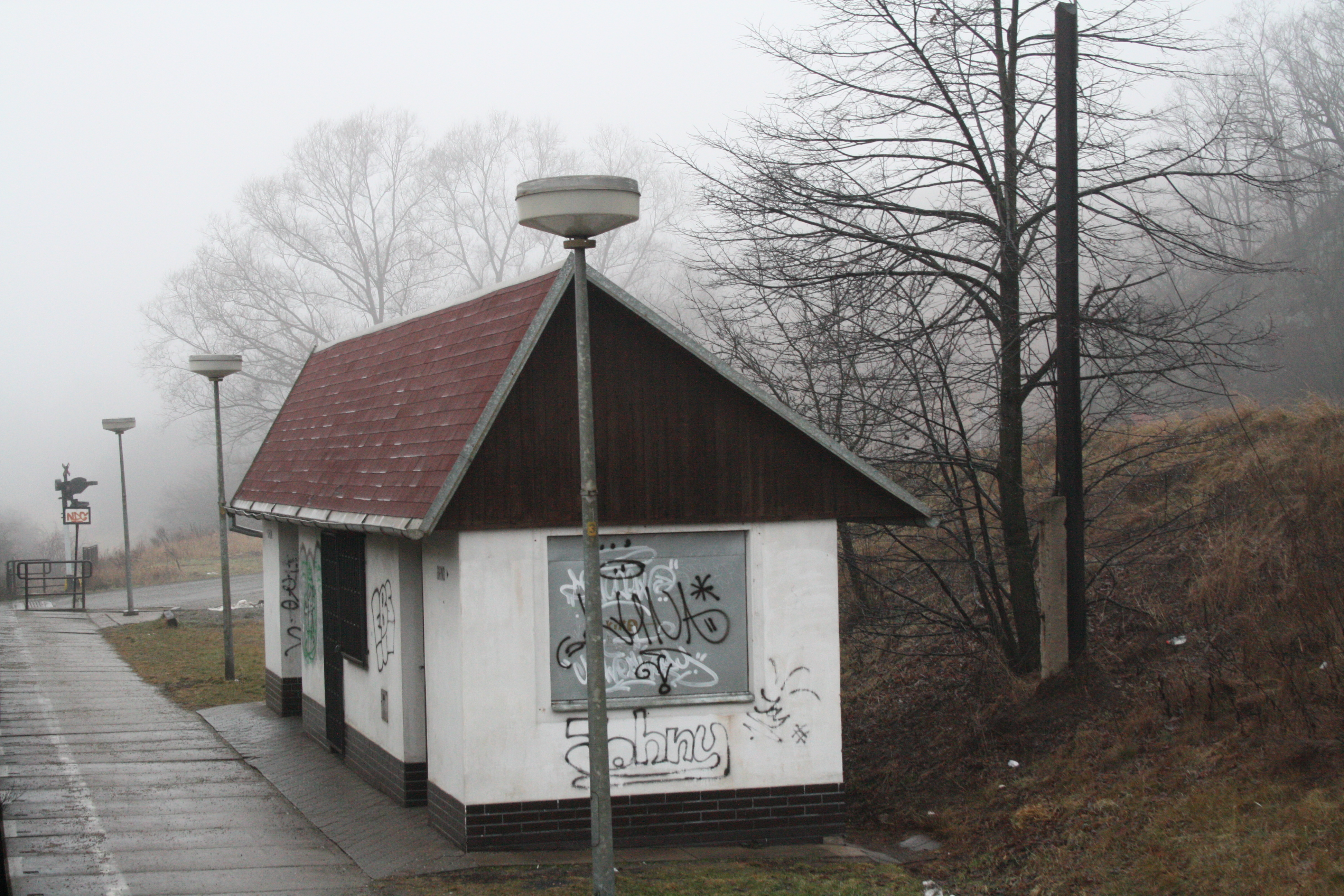 Train station in Vladislav, Třebíč District, Czech Republic.